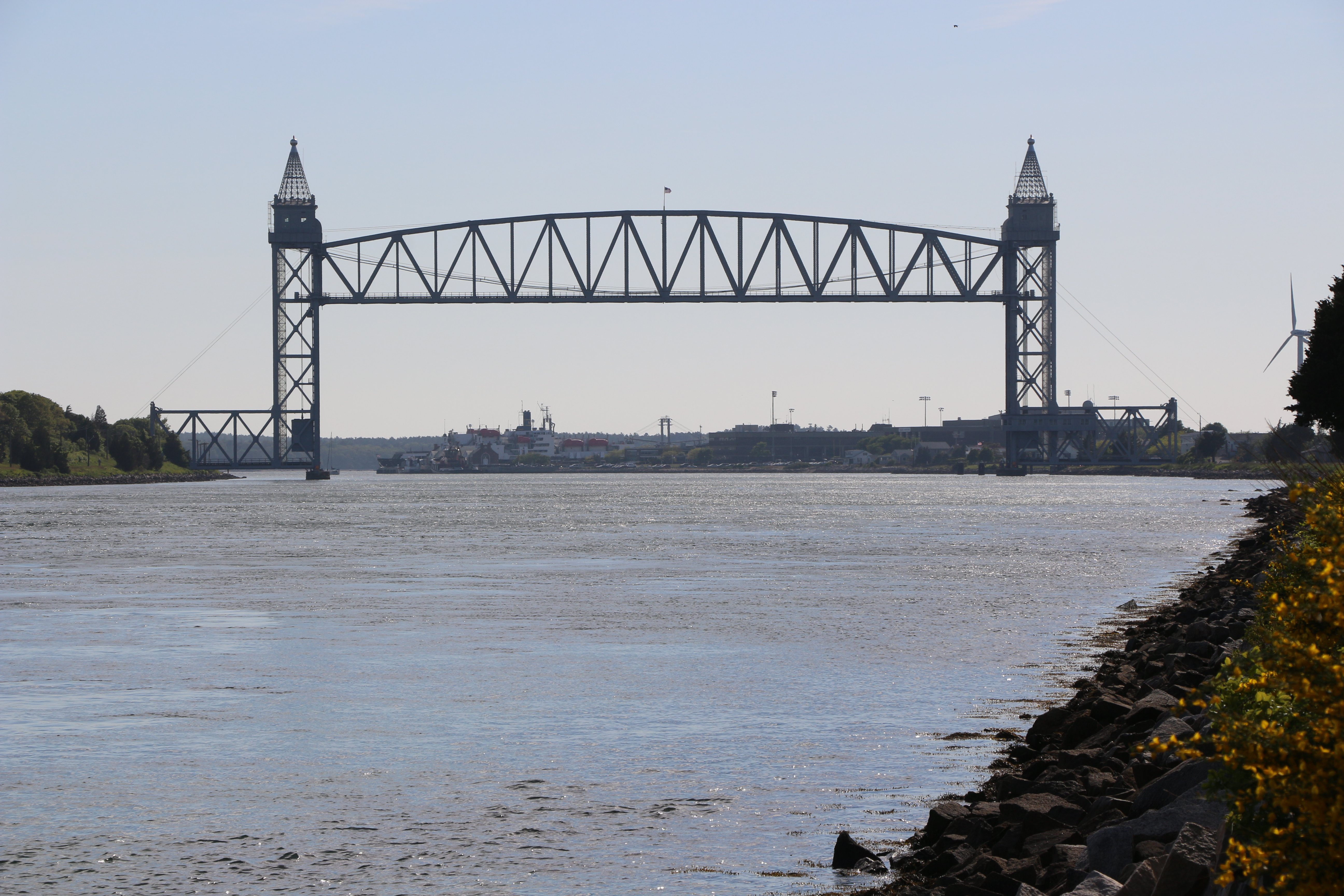 Cape Cod Canal Railroad Bridge in the raised position in June 2014